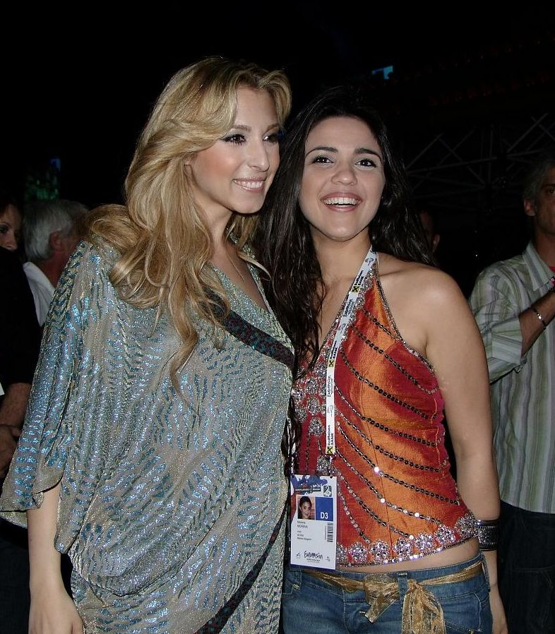 Gisela (on the left) with Morena from Malta at a party in Belgrade, Serbia, May 2008